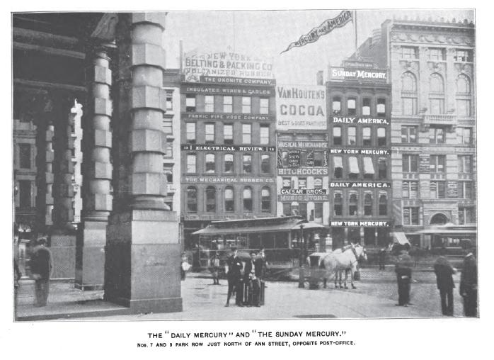 Photo of Sunday Mercury building in New York City, circa 1894, published in 1895.